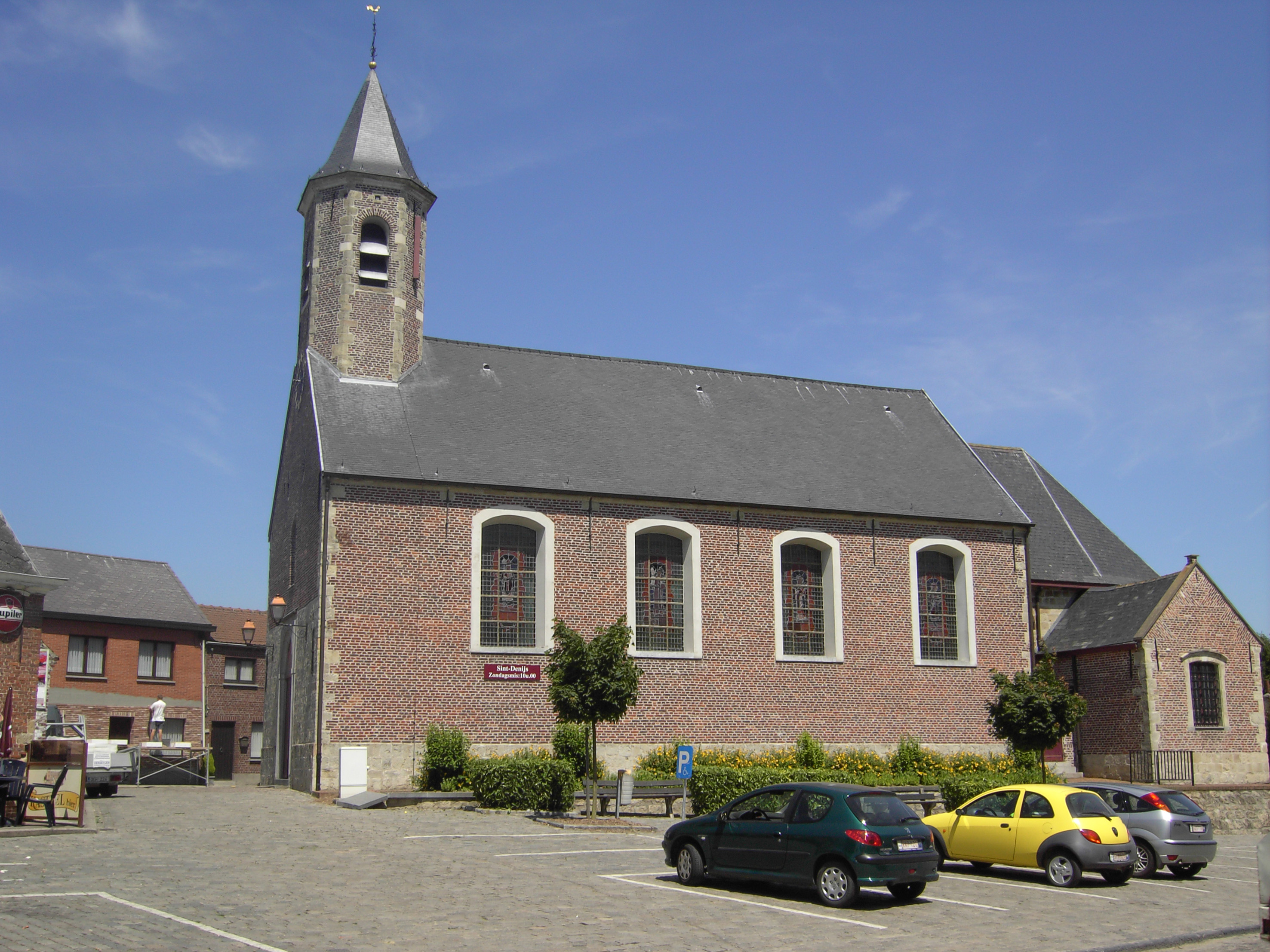 Church of Saint Denis in Impe. Impe, Lede, East Flanders, Belgium